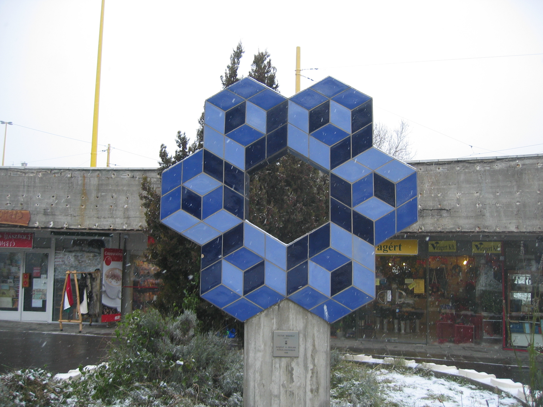 Victor Vasarely sculpture at Budapest Déli pályaudvar trainstation.